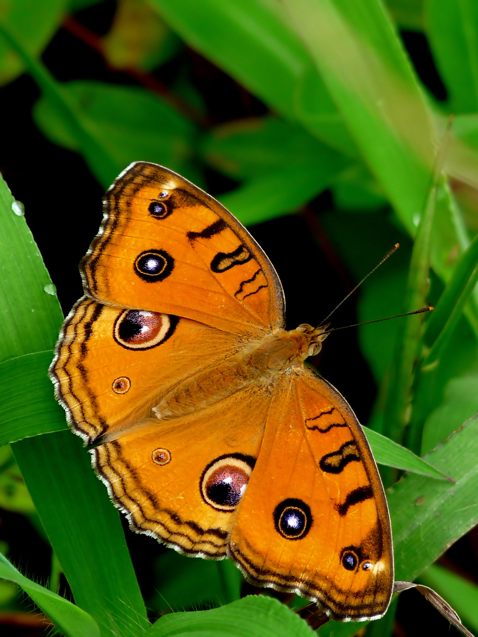 Junonia almana WSF (Upper Side) The Peacock Pansy (Junonia almana) is a species of nymphalid butterfly found in South Asia. It exists in two distinct adult forms, which differ chiefly in the patterns on the underside of the wings; the dry-season form has few markings, while the wet-season form has additional eyespots and lines. Taken at Kadavoor, Kerala, India